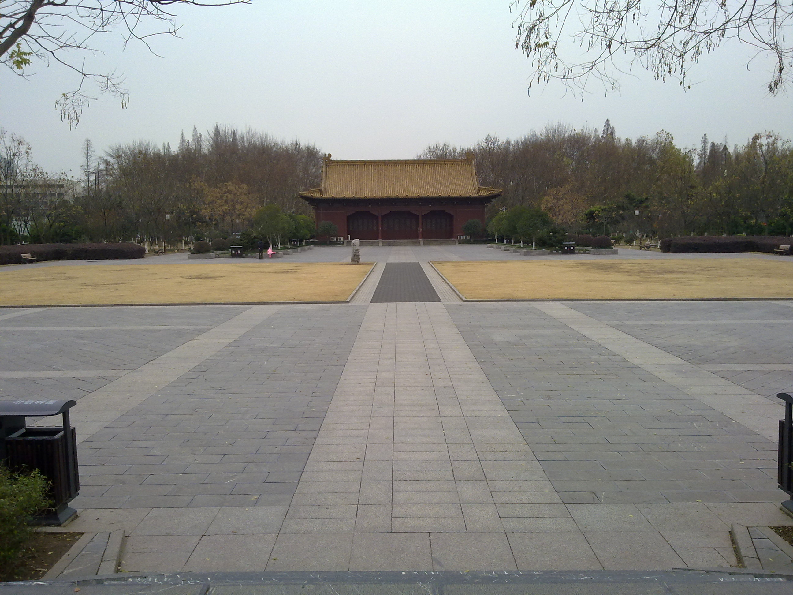 Site of Fengtian Hall (奉天殿) of Nanjing Ming Palace